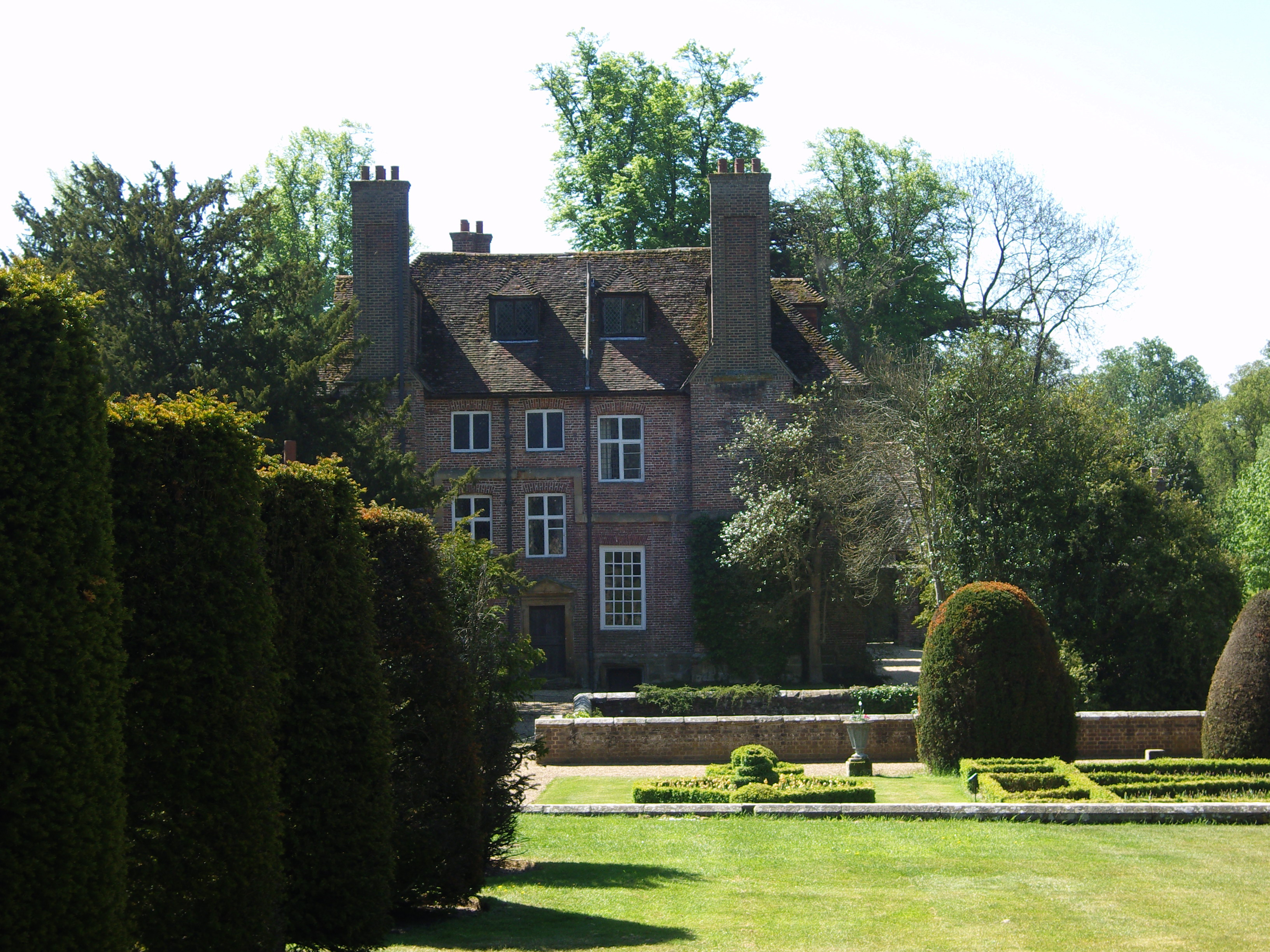 Groombridge Place, a historic house in Kent